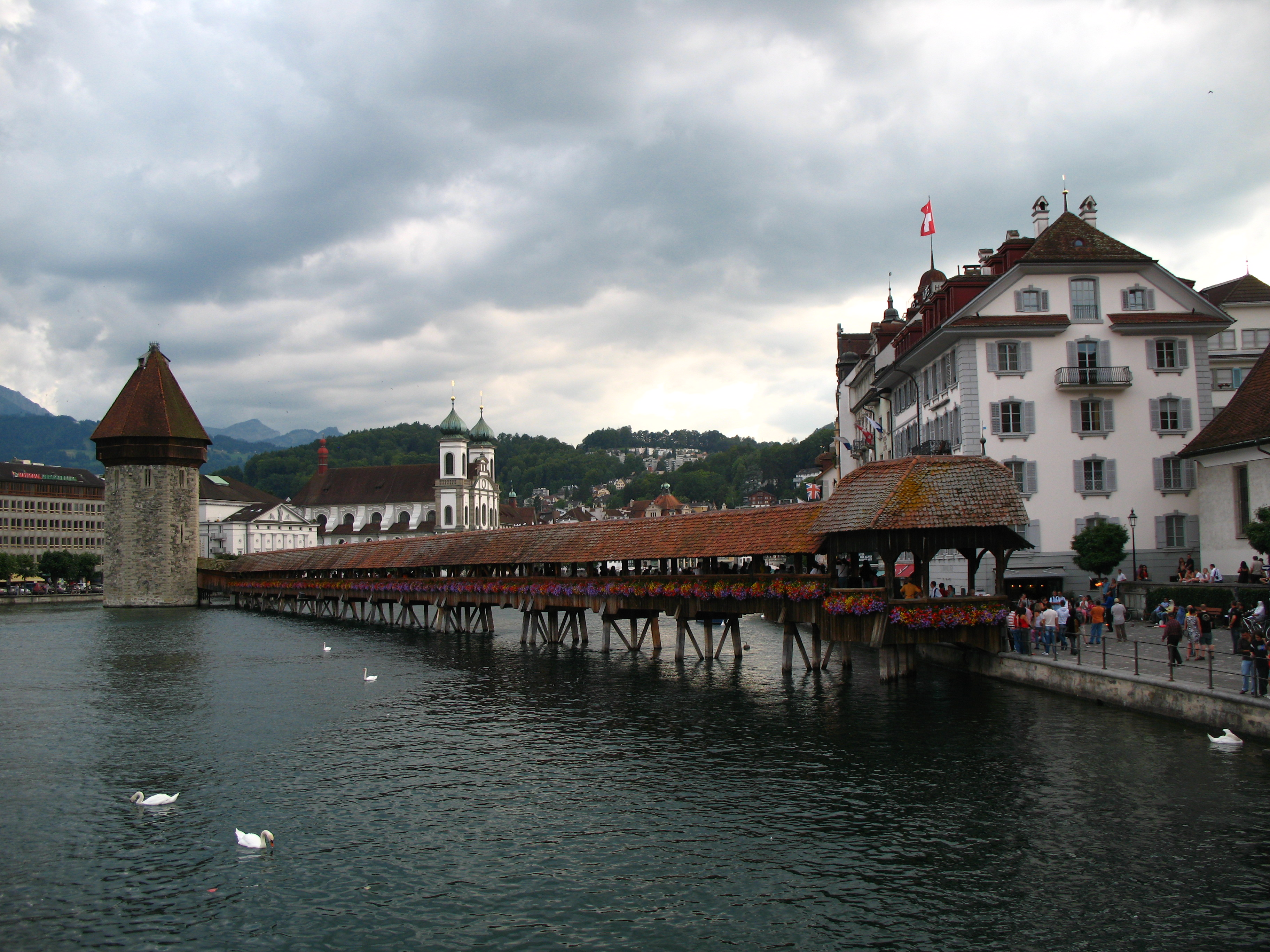 Chapel Bridge, Luzern, Switzerland